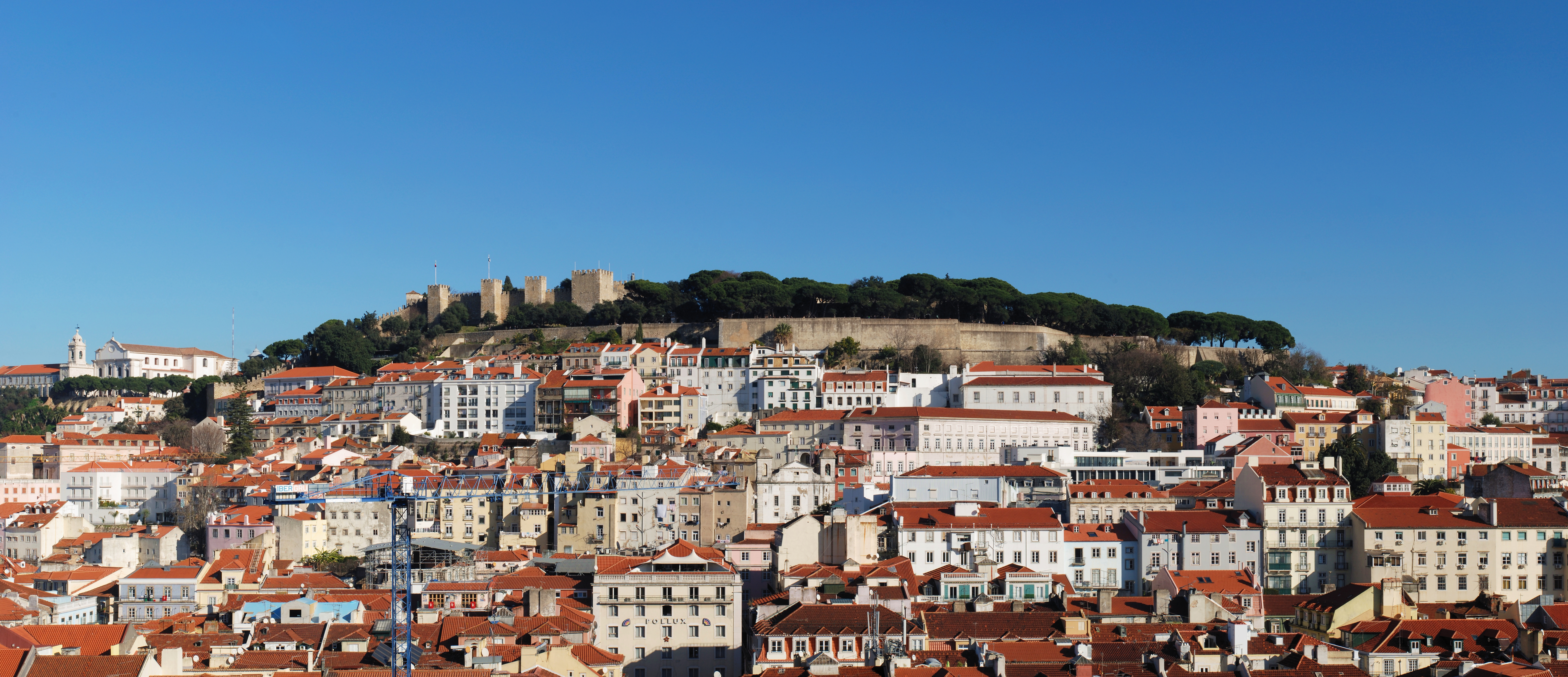 The castle of São Jorge, Lisbon